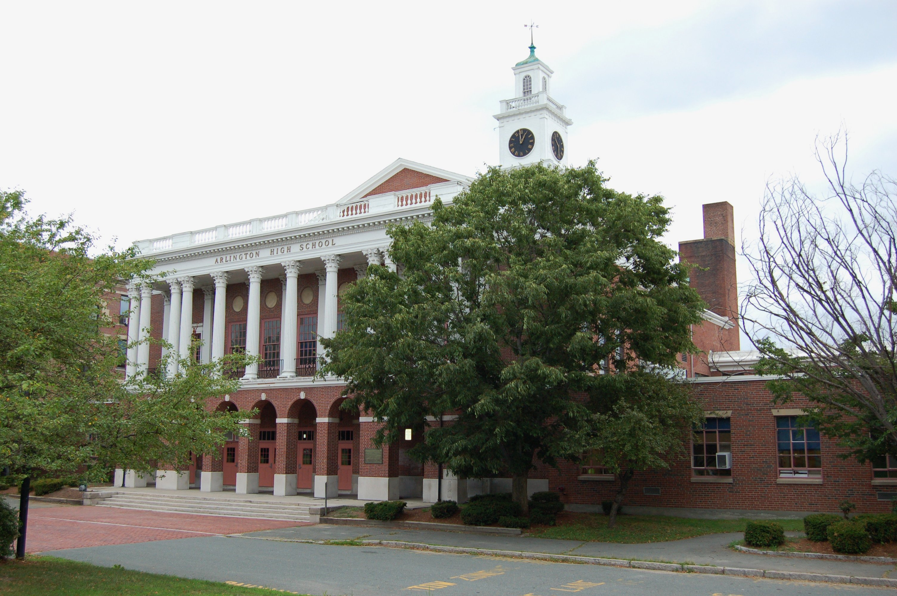 Arlington High School (MA)